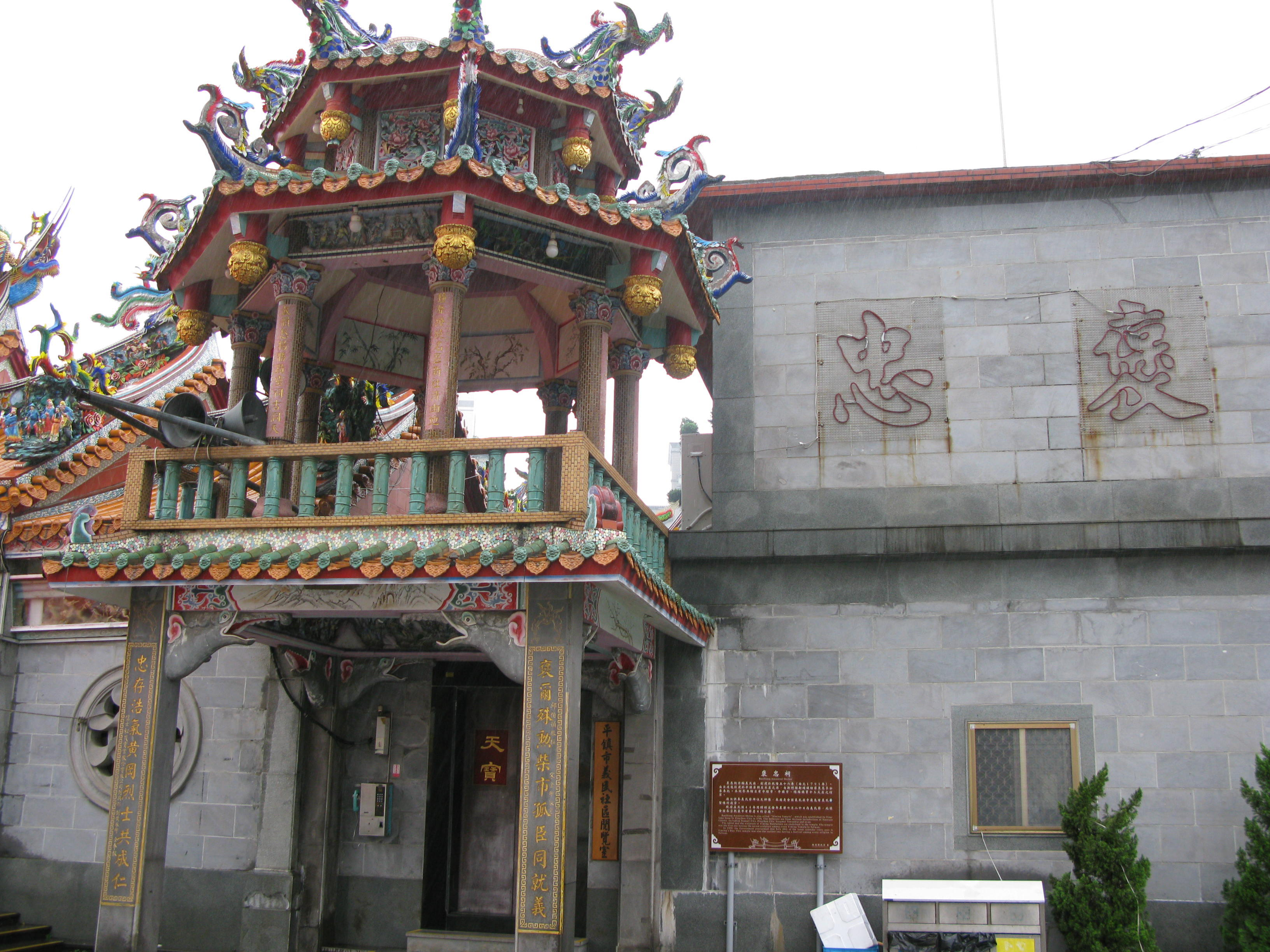 Pingjhen City righteousness people's temple-2,TAIWAN